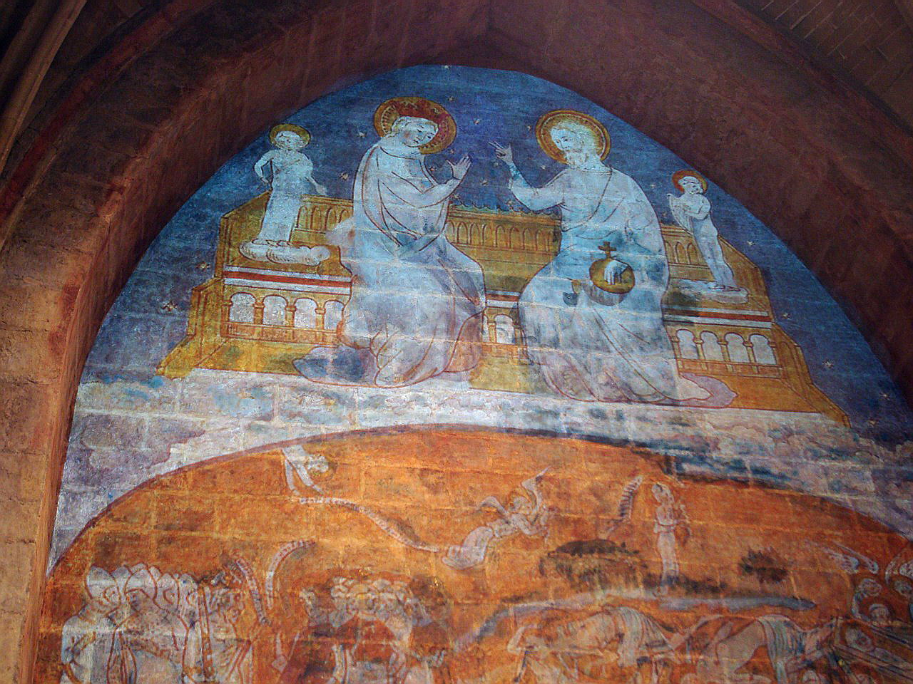 Maastricht, the Netherlands. Interior of Dominican Church. Detail of a 13th-century fresco of the life of Thomas Aquinas, here shown with a digitally enhanced projection over the original mural.